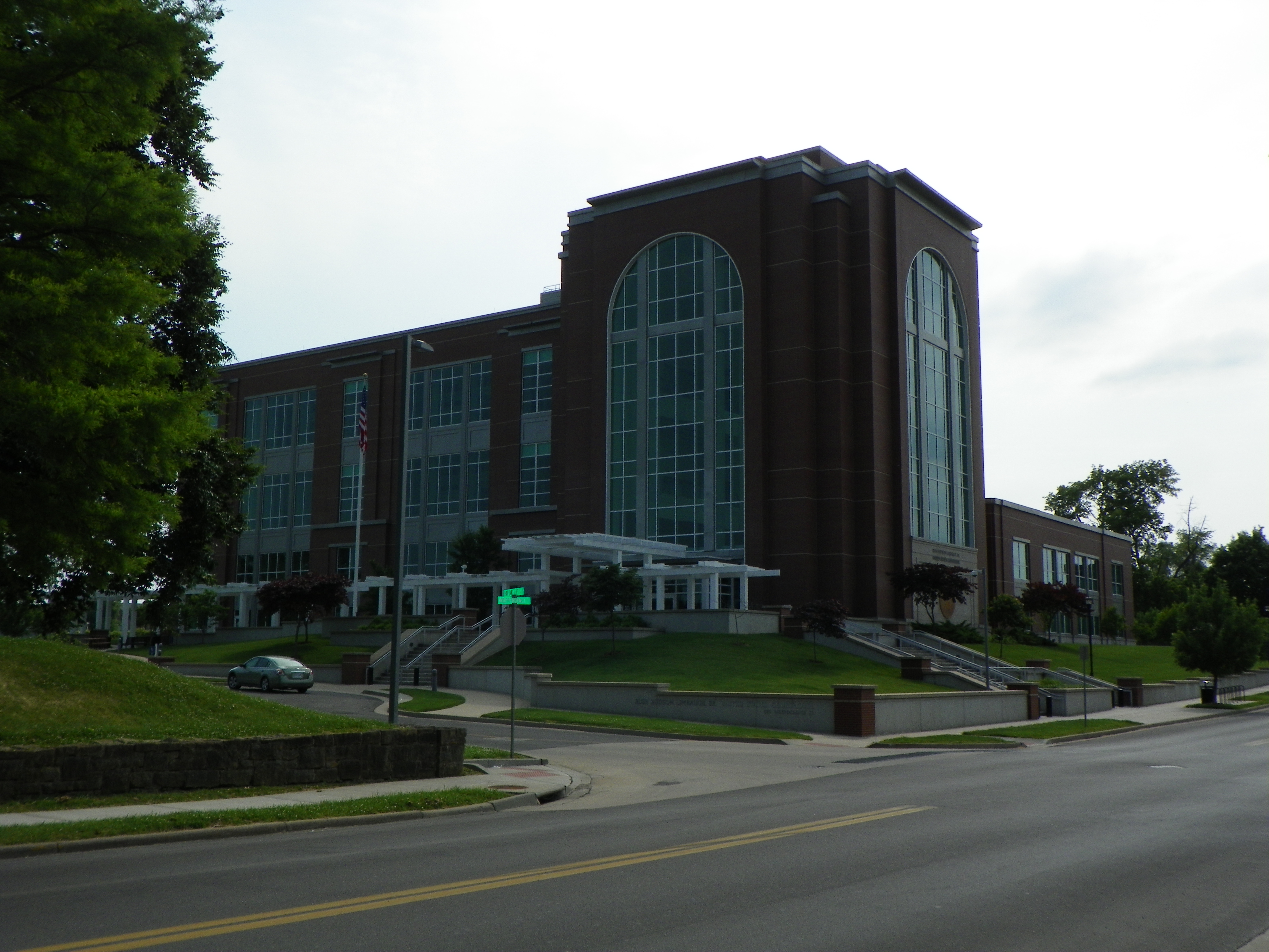 Rush Hudson Limbaugh Sr. U.S. Courthouse, seat of the United States District Court for the Eastern District of Missouri, Southeastern Division Court